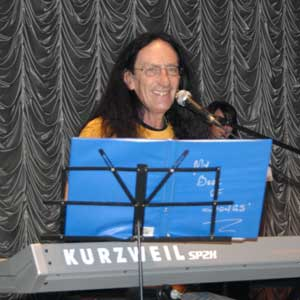 Ken Hensley live at Rostov-on-Don, Russia april 13 2010